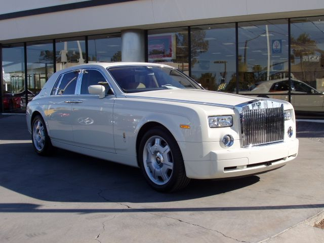 Rolls-Royce Phantom (2003)